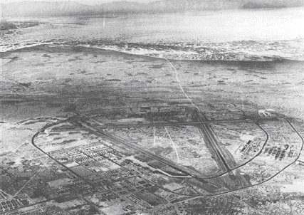 Aerial photograph of Alamogordo Army Air Field New Mexico.